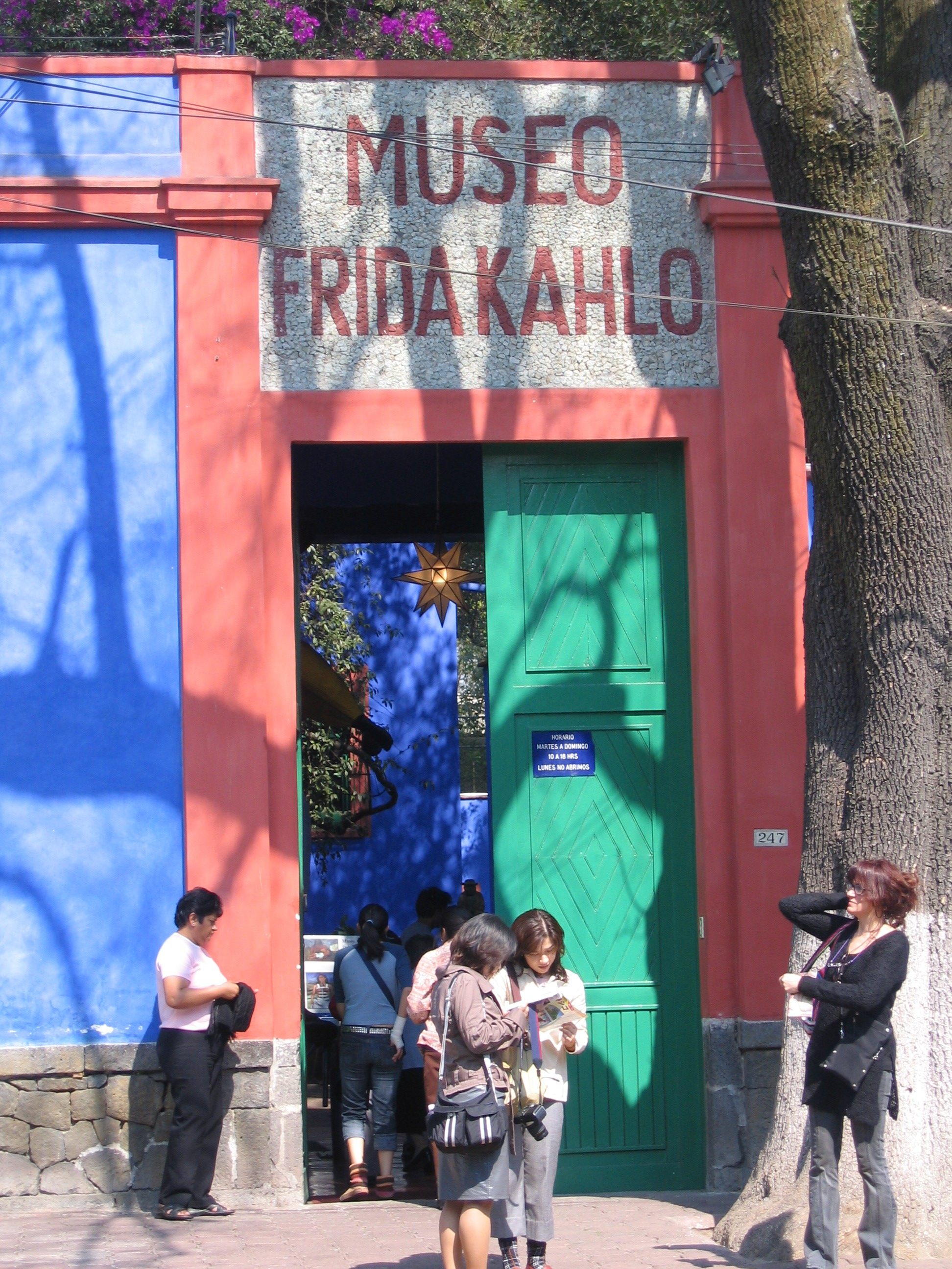 Picture from Frida Kahlos house - The Blue House.